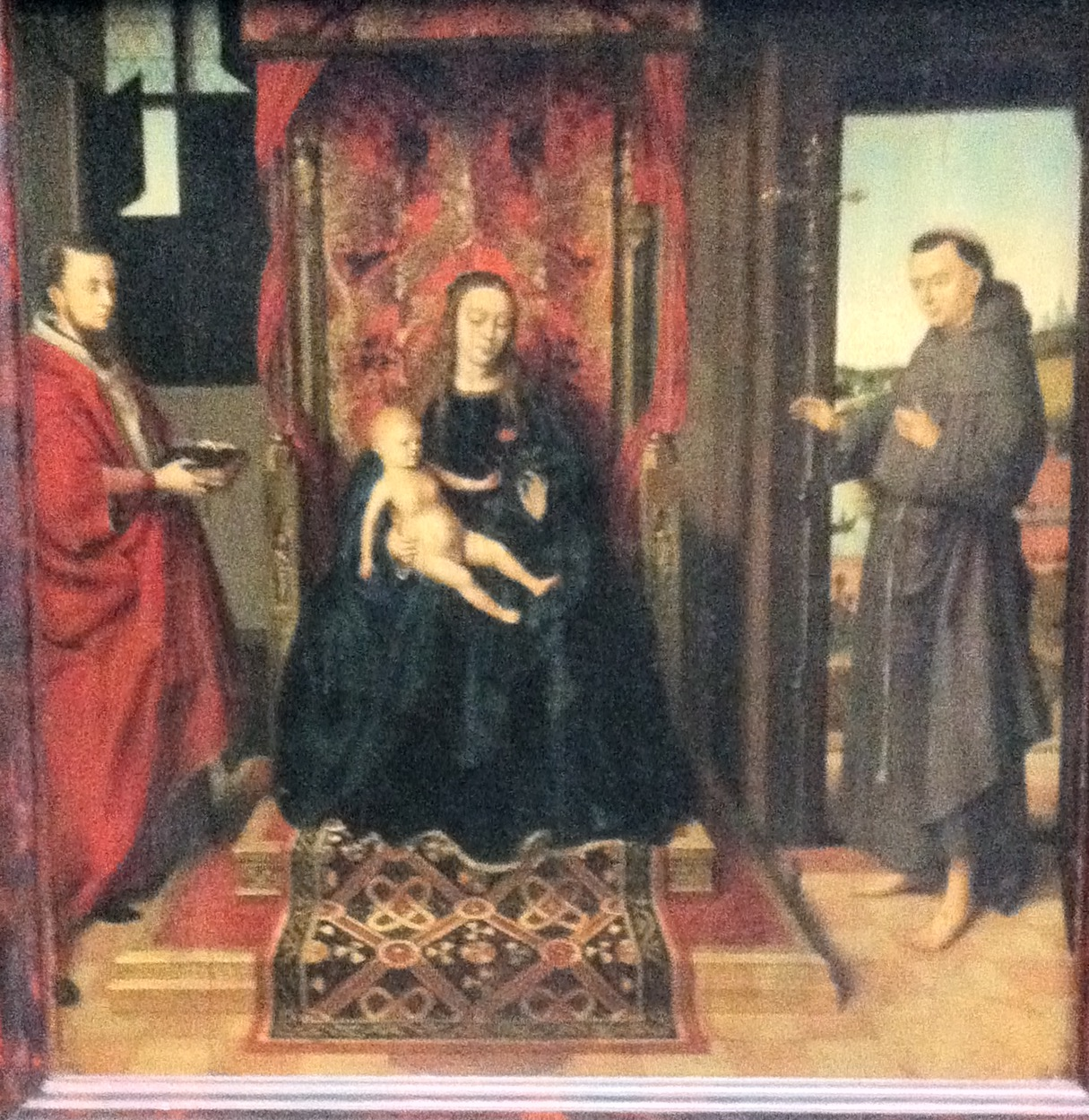 Petrus Christus, Virgin and Child with Saints Jerome and Francis, 1457. Städel Museum, Frankfurt